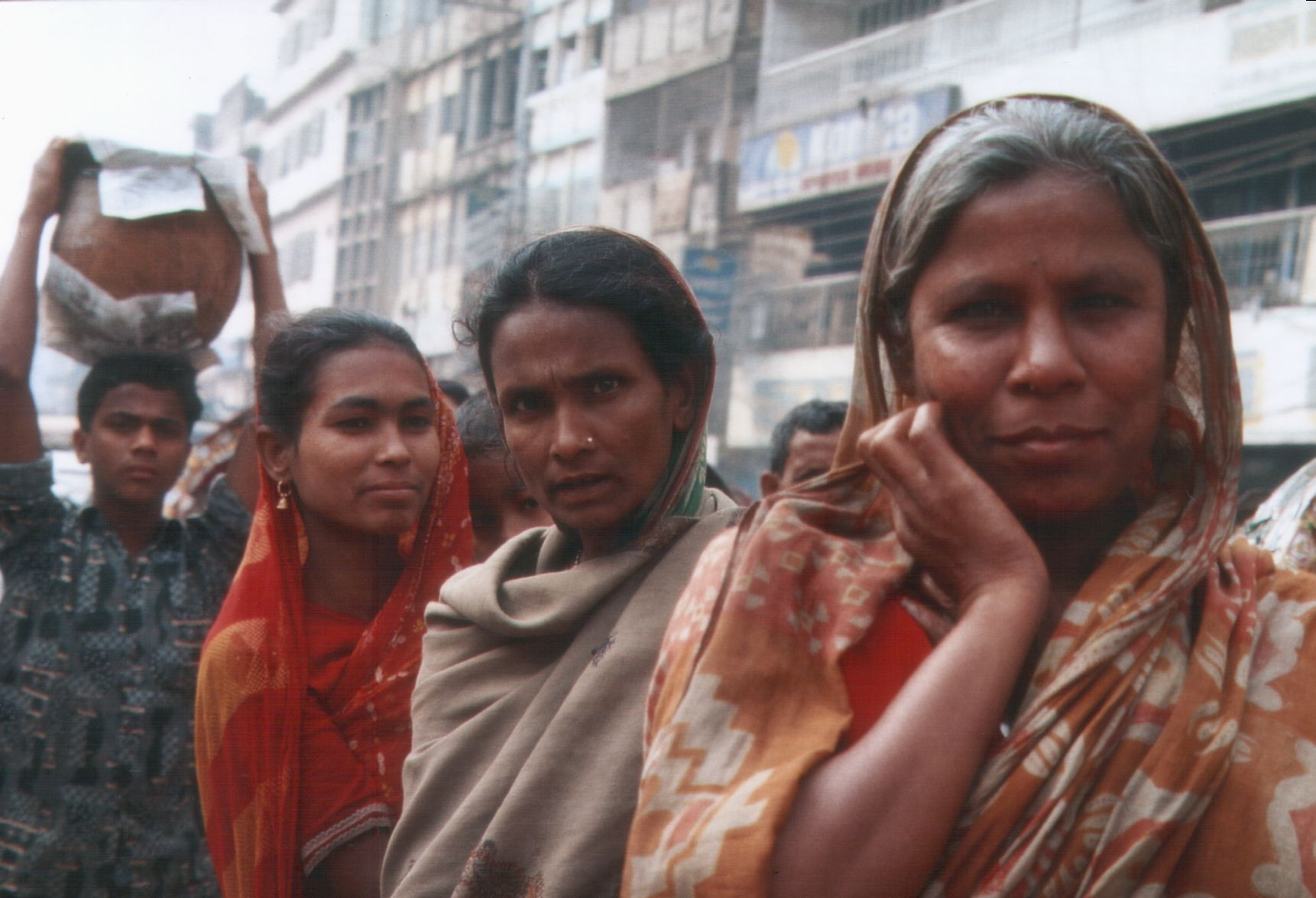 Three Bengali women in saris and a man carrying a pot on his head. In the background, buildings of Dhaka. Original caption: The women were really supprised we photographed just them, out of so many people around. (Dhaka, Bangladesh)